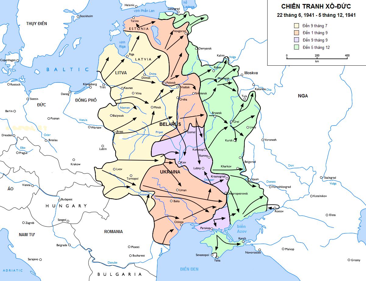 Vietnamese version of File:Eastern Front 1941-06 to 1941-12.png